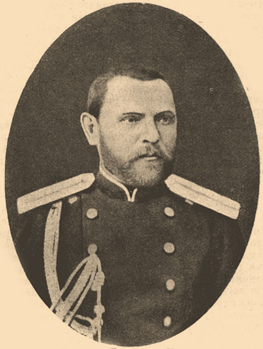 Illustration from Brockhaus and Efron Jewish Encyclopedia (1906—1913). Herzel Yankel Tsam - the only Jewish officer in the 19th century Russian Empire. Drafted into the army as a 17-year-old сantonist, he was pomoted to captain only after 41 years of service. In spite of pressures, he never converted to Christianity.